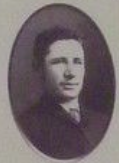 Photo of Port Adelaide player John Sidoli 1882